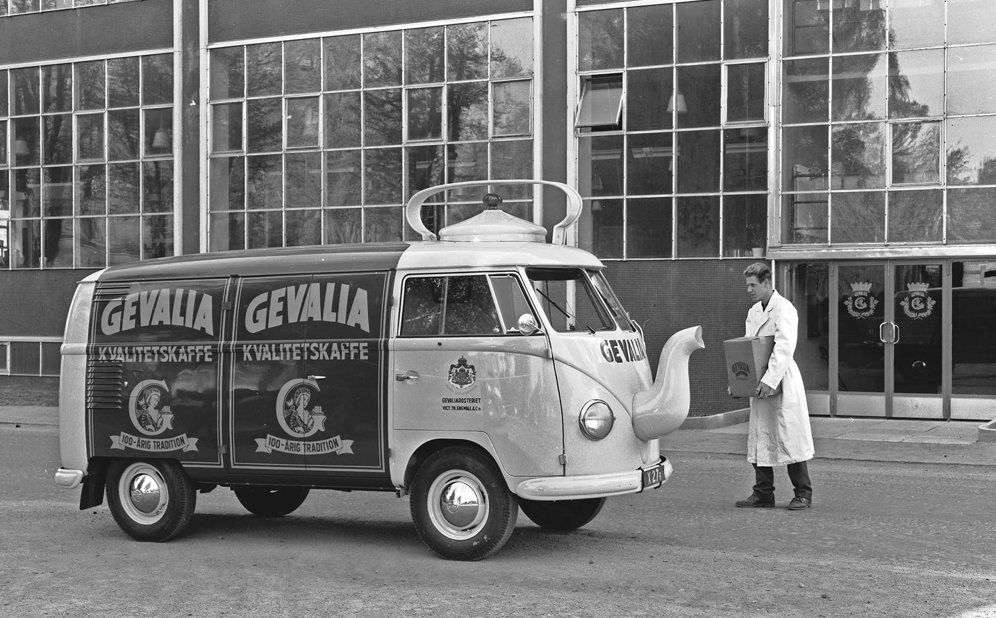 This Volkswagenbus was delivered to Gevalia rost plant in Gävle, Sweden the 31th of May 1956.